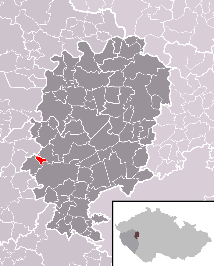 Location of Klabava municipality within Rokycany District and within identical administrative area of Rokycany as a Municipality with Extended Competence.